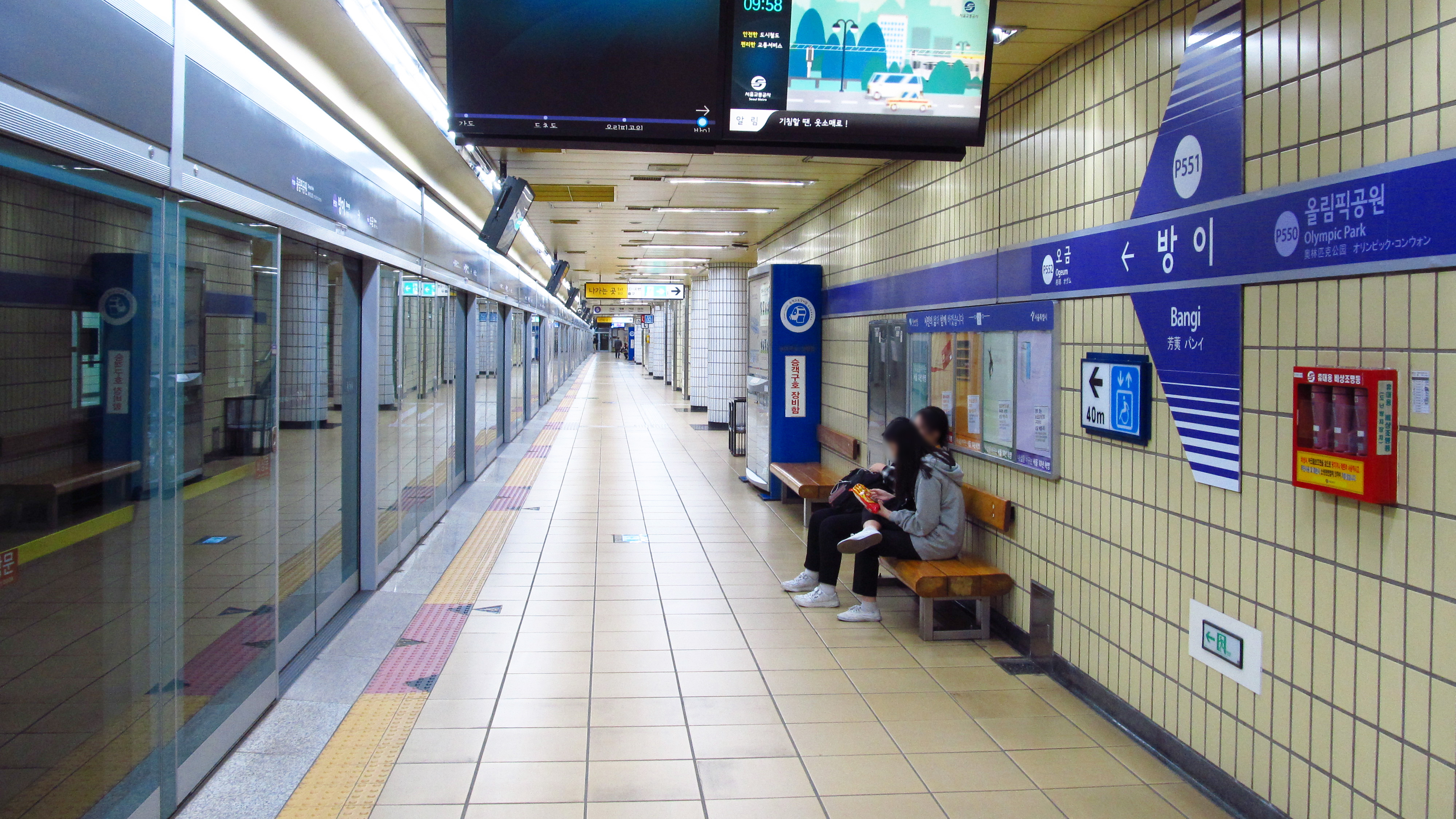 The platform at Bangi Station on Seoul Subway Line 5 in Songpa-gu, Seoul, Republic of Korea(South Korea)